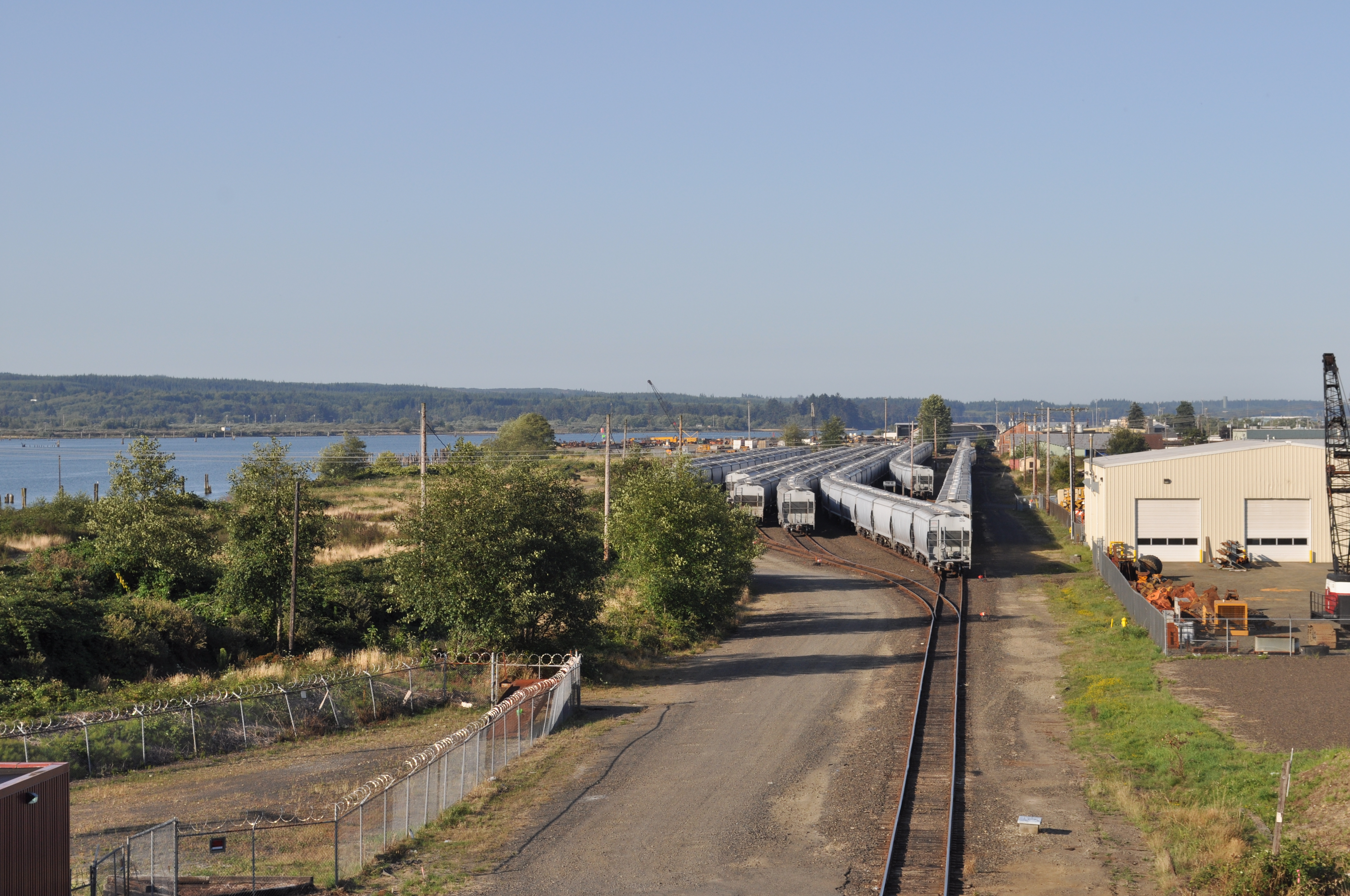 Rail yard, Puget Sound and Pacific Railroad, Aberdeen, Washington, USA.